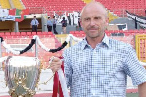 Picture of Mark Miller.